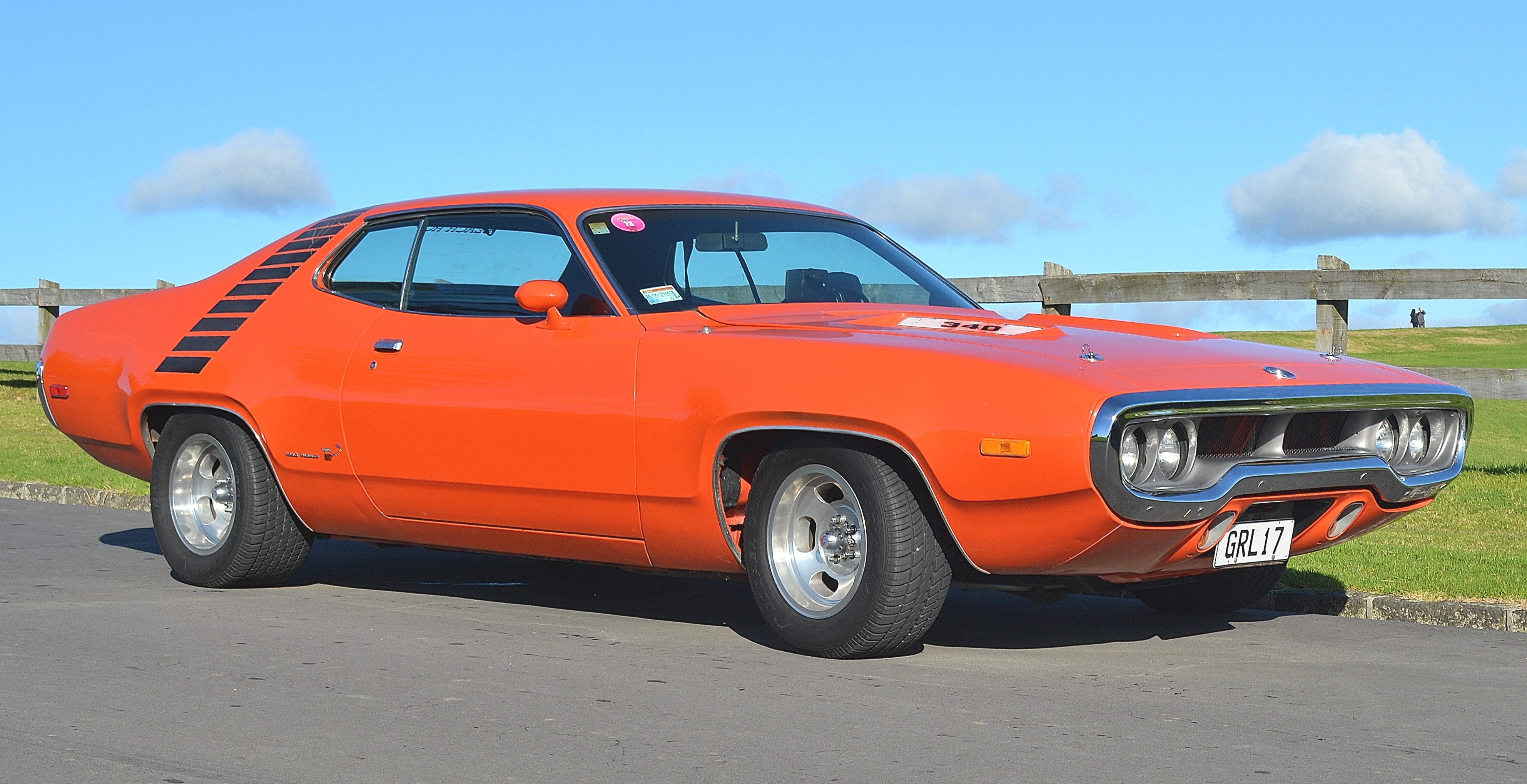 Mission Bay.Auckland,NZ